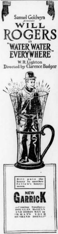 Newspaper advertisement for the American western comedy film Water, Water, Everywhere (1920) with Will Rogers, on page 11 of the March 25, 1920 Duluth Herald.